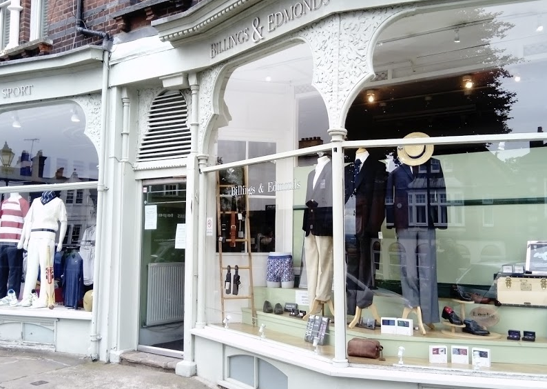 This is the shopfront facade of the Billings & Edmonds shop on the Harrow on the Hill High Street.